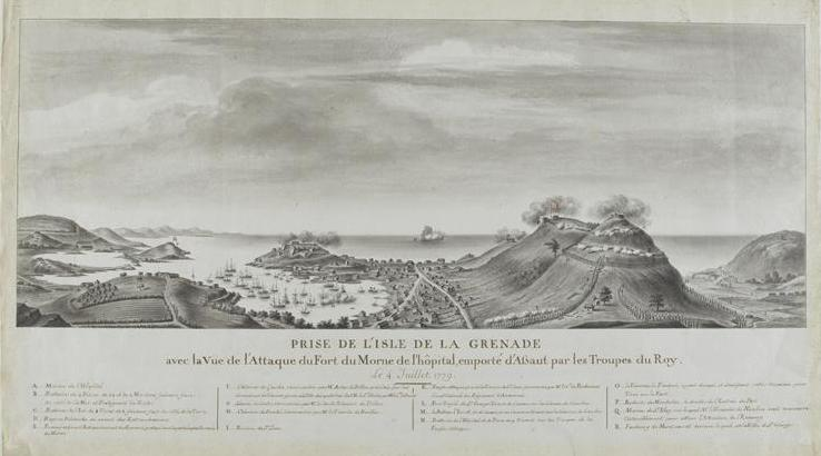 View of the French assault on the island of Grenada, July 4, 1779 during the American Revolutionary War.